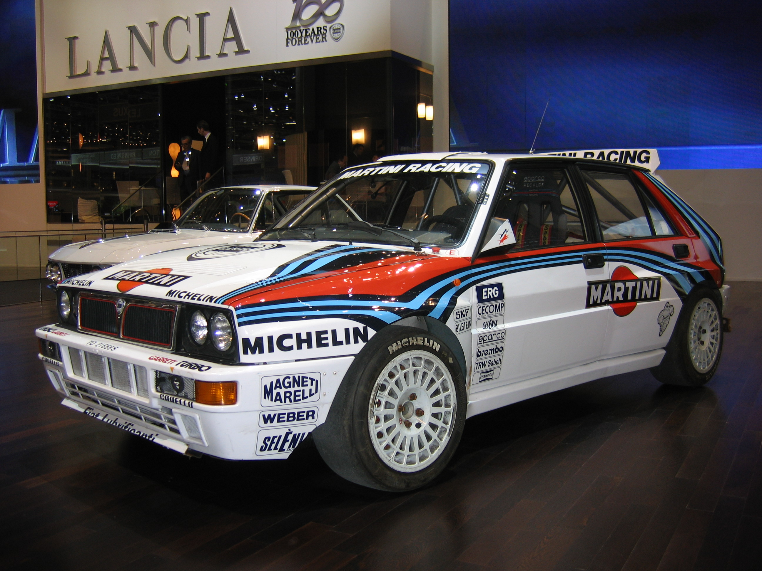 Geneva Motor Show 2006